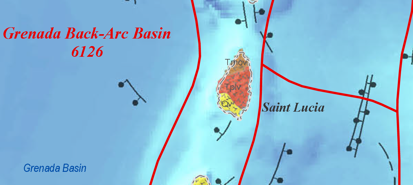 USGS Saint Lucia geologic map, where Tmov denotes Miocene/Oligocene volcanic rocks, Tplv are Pliocene calc-alkaline volcanic rocks, and Qv are Quaternary volcanic edifices, flows, and pyroclastic deposits.